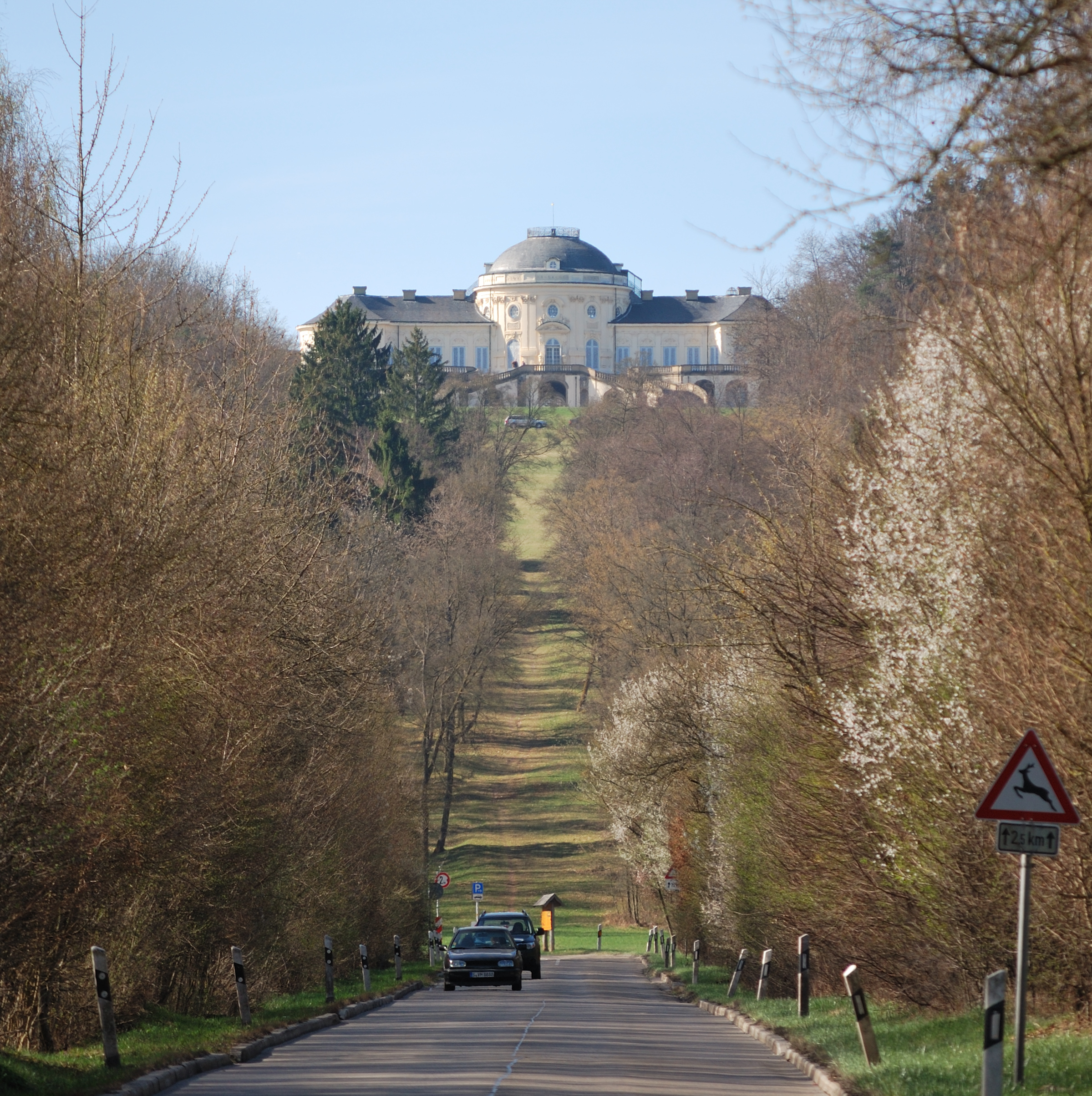 View of Castle Solitude near Stuttgart in Germany.